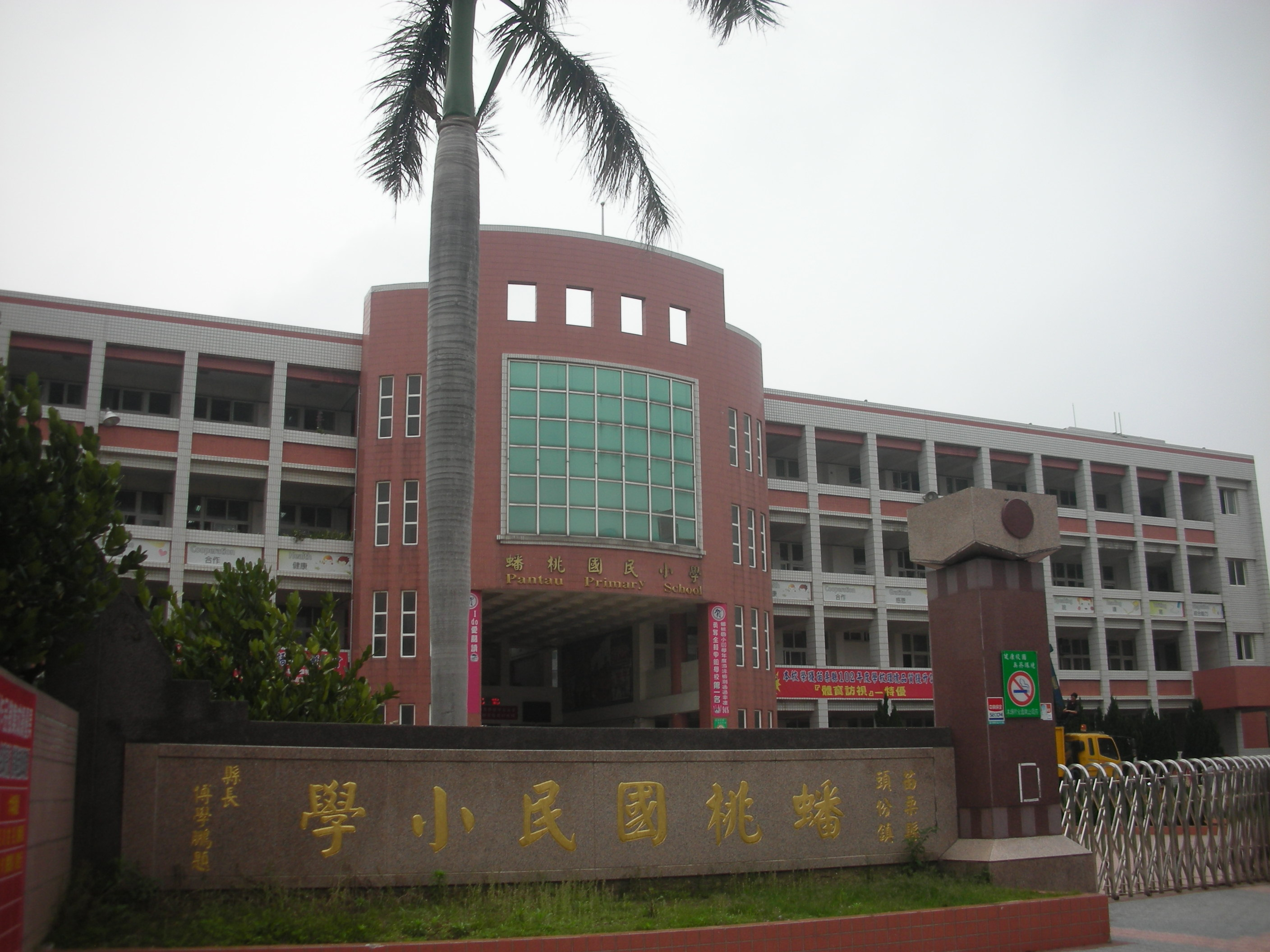 蟠桃國小 Pantau Primary School